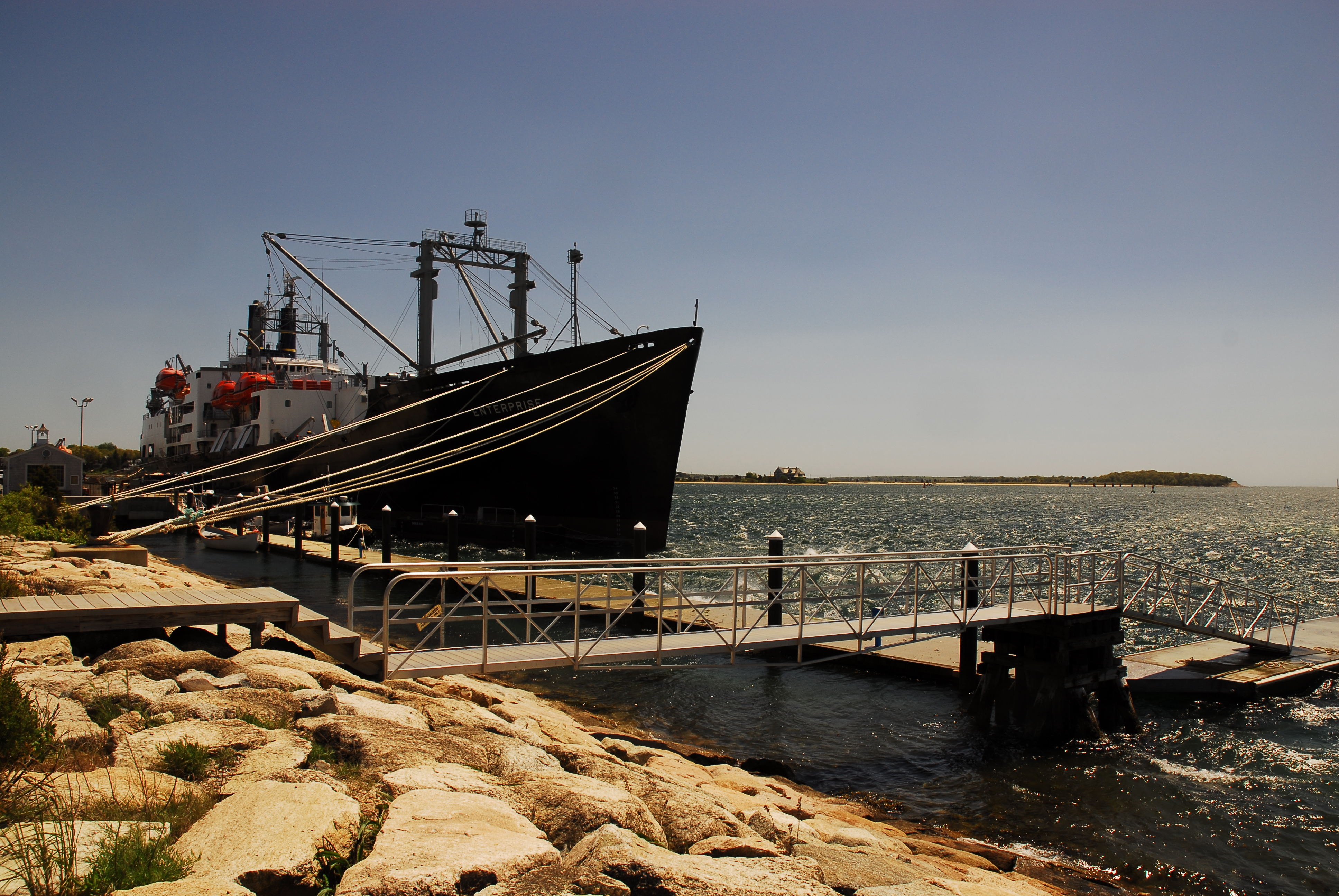 mass maritime academy united.states.training.ship - enterprise